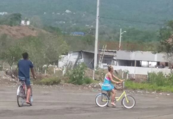 Image of Shakira and Carlos Vives recording 'La bicicleta' music video, cropped